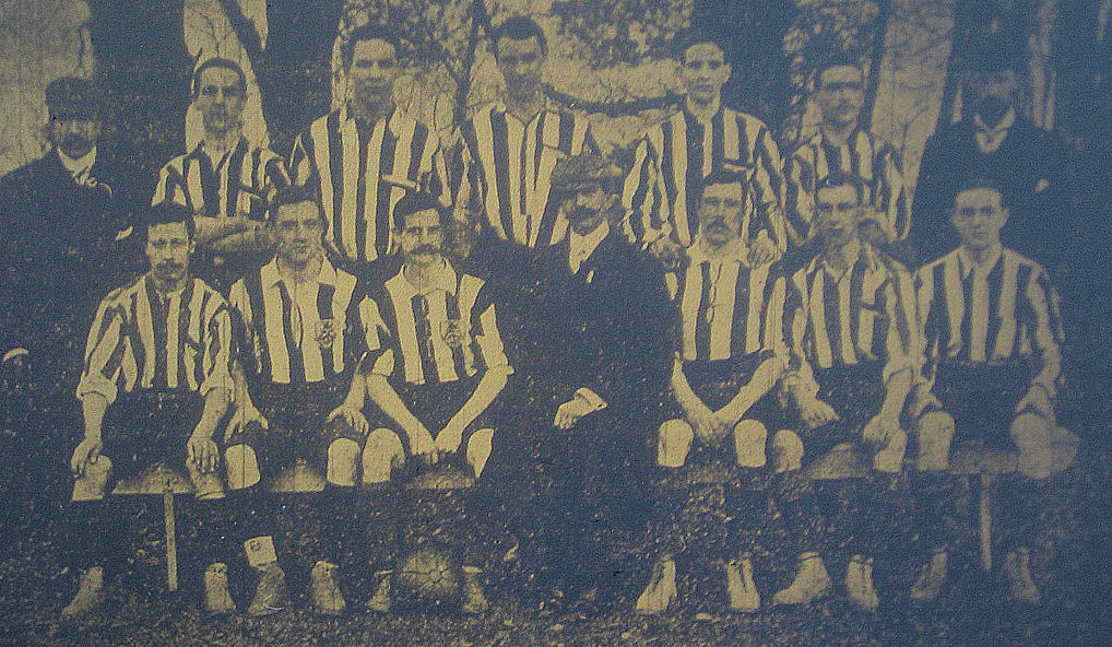 Margate F.C. team photo from 1901, used in the article on the club to illustrate its early years. Image believed to be in the public domain due to age, as per the terms of the template